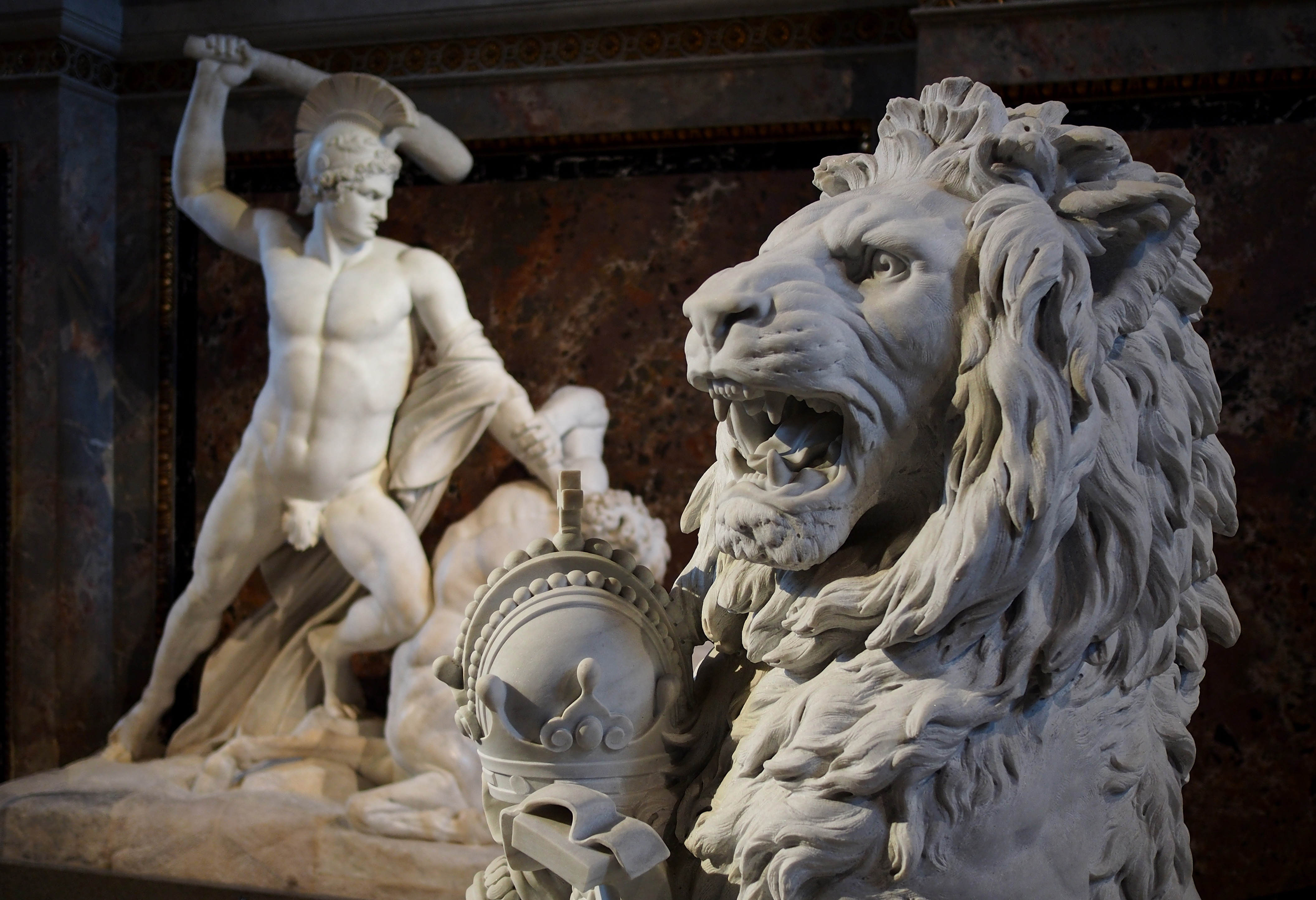 Sculpture of a lion with Habsburg imperial crown, Theseus in background (Theseus and Centaur by Antonio Canova). Kunsthistorisches Museum Vienna, Austria. This photograph was taken with an Olympus E-P5